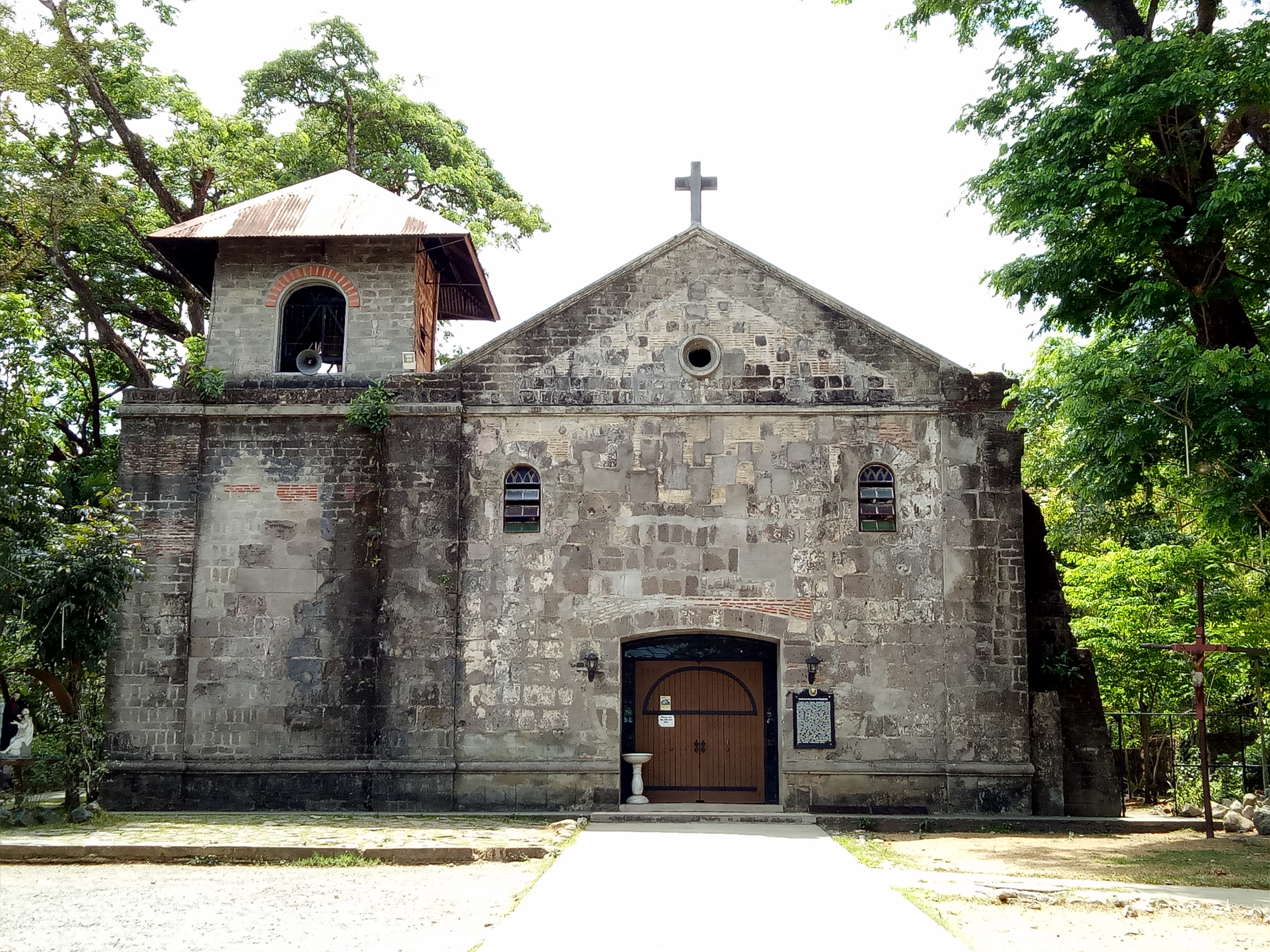 Bosoboso Church in Sitio Old Bosoboso, Barangay San Jose, Antipolo, Rizal in the Philippines